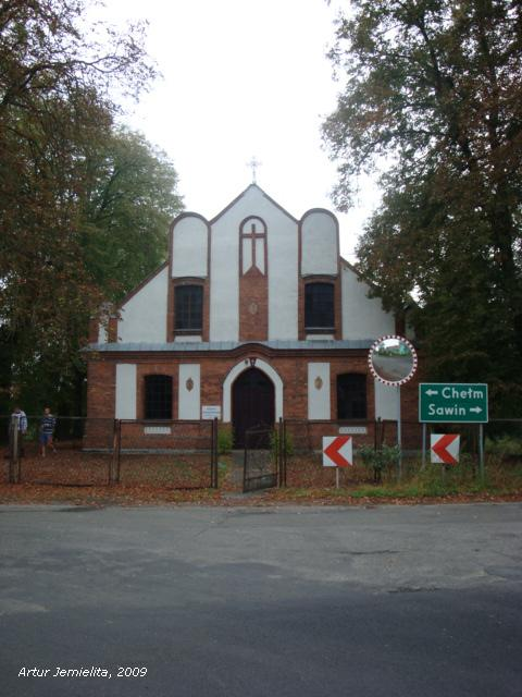 St. Mathew's Polish Catholic Church in Ruda Huta, Poland